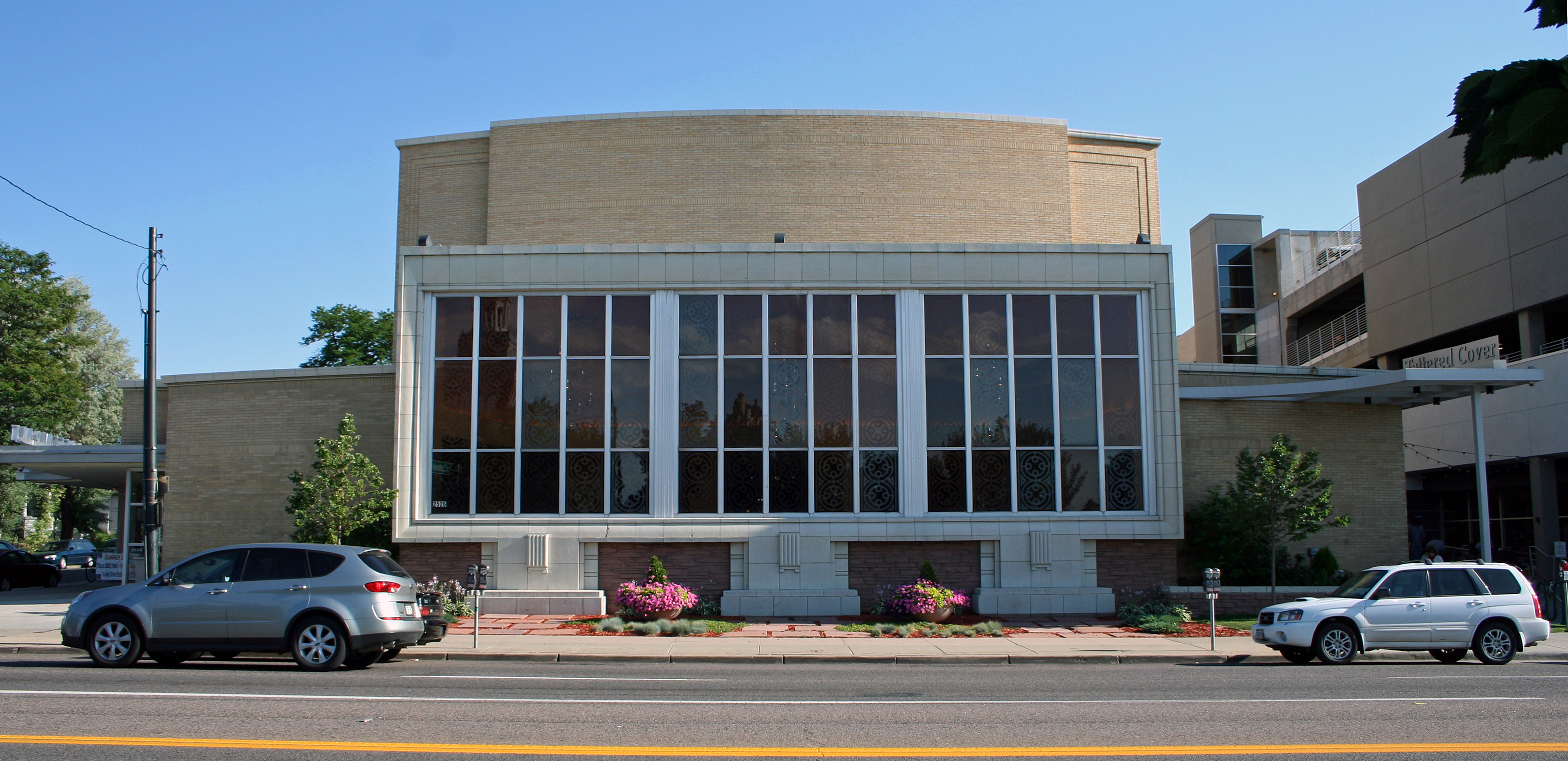 Bonfils Memorial Theater, located at 1475 Elizabeth Street in Denver, Colorado